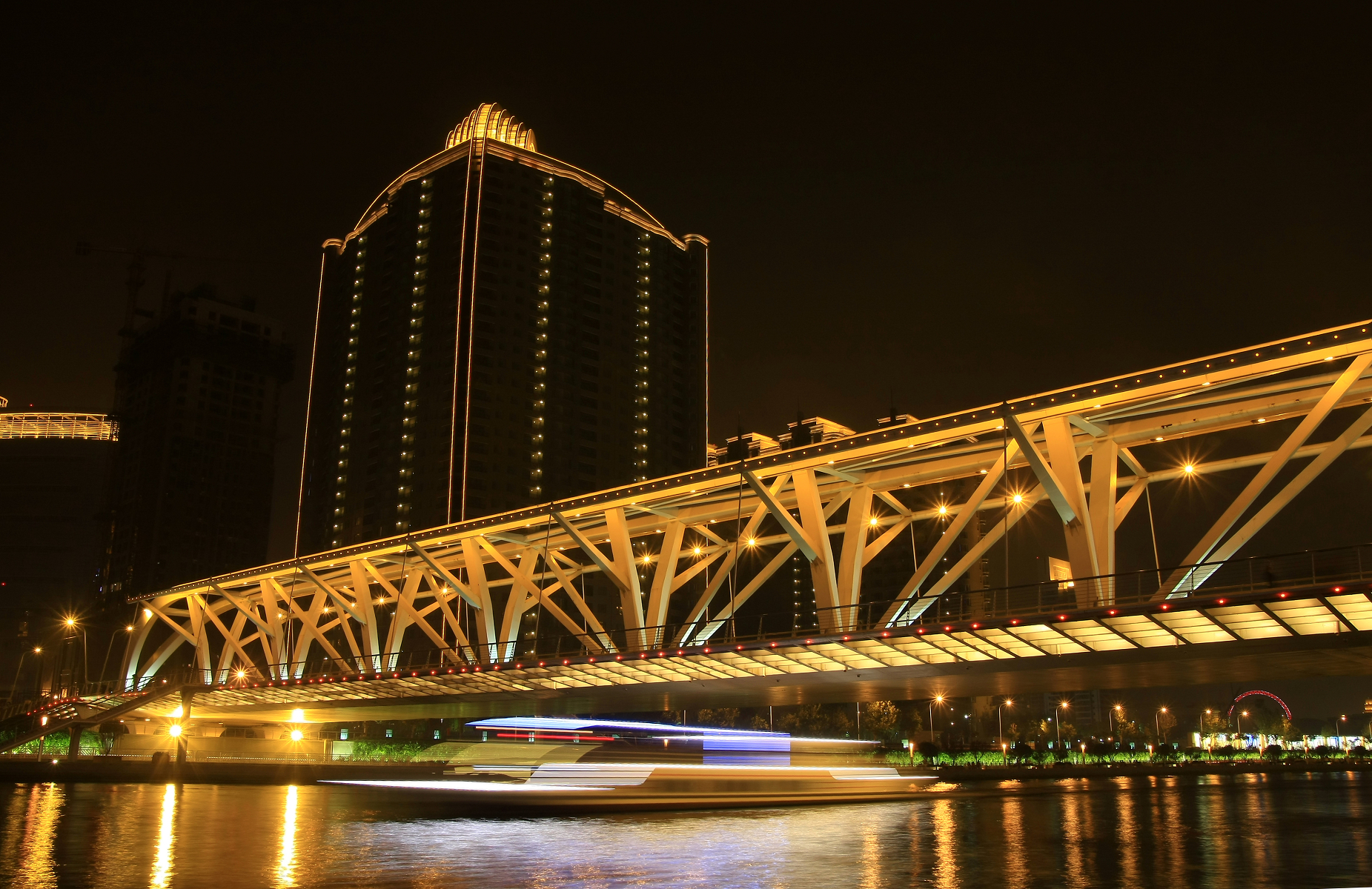 Bright Bridge in Tianjin